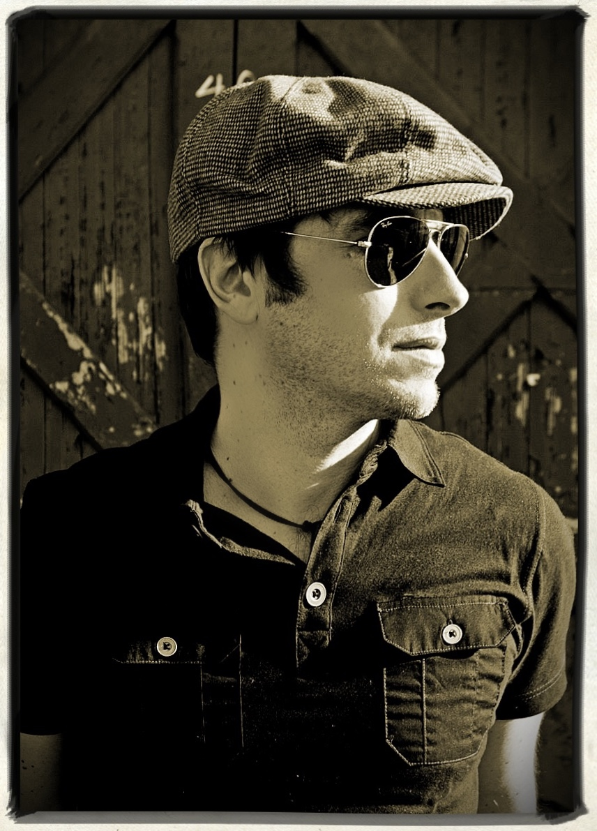 American soul DJ Pari, known for his work with singers Marva Whitney, Lyn Collins Gwen McCrae and the Impressions, among others.